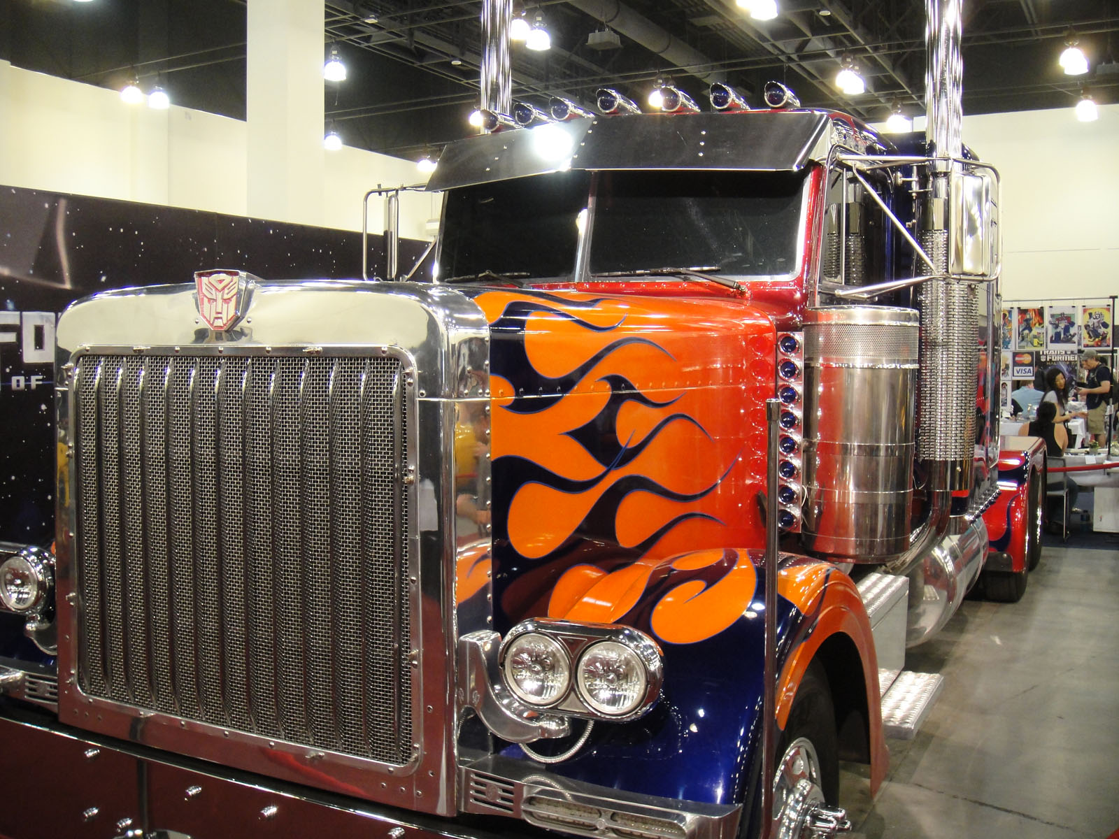 photo 2011 taken by Doug Kline If you're interested in higher resolution versions of my images, contact me via my profile page.